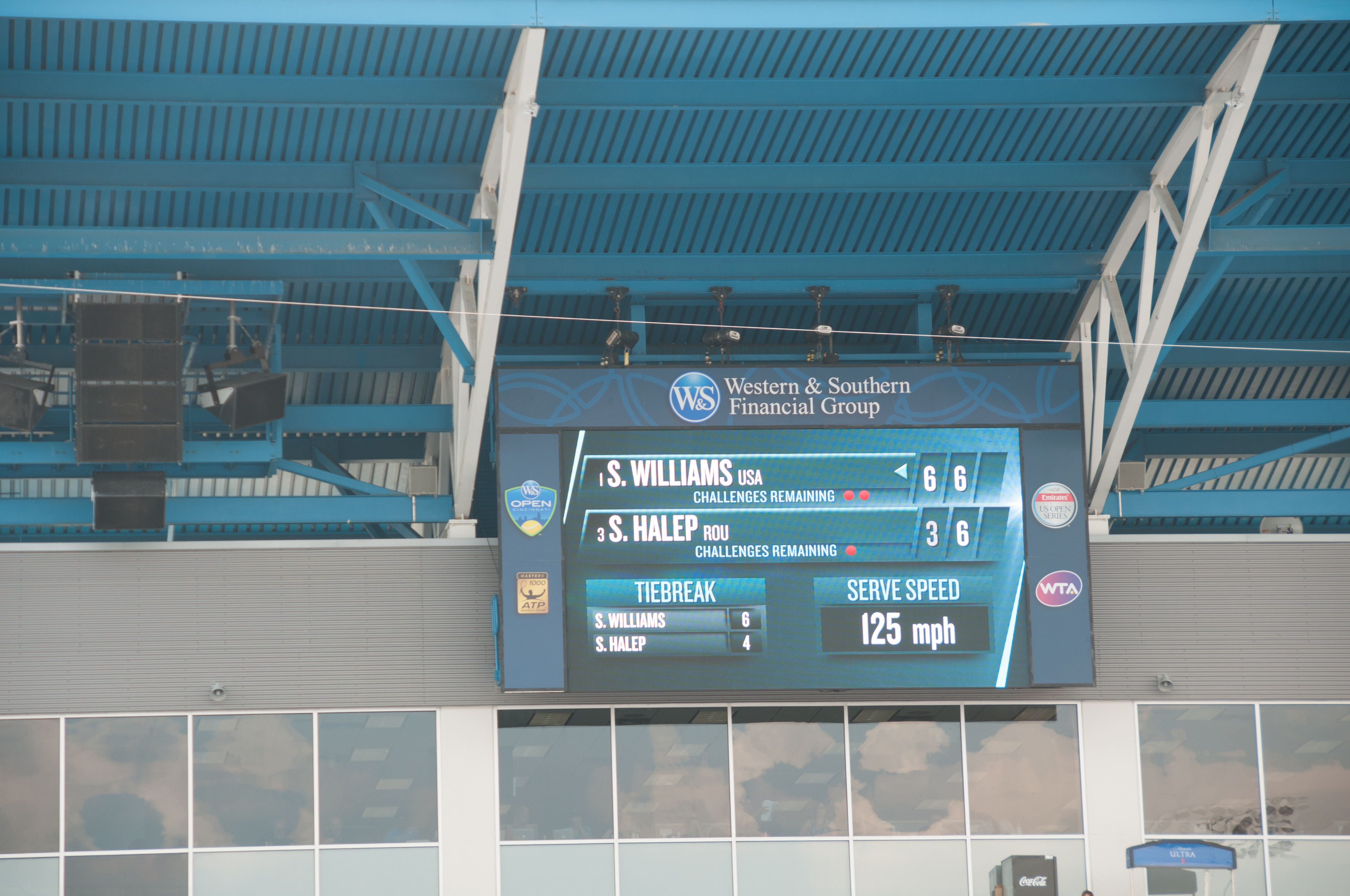 Cincinnati-Tennis-2015-ATP-WTA-162